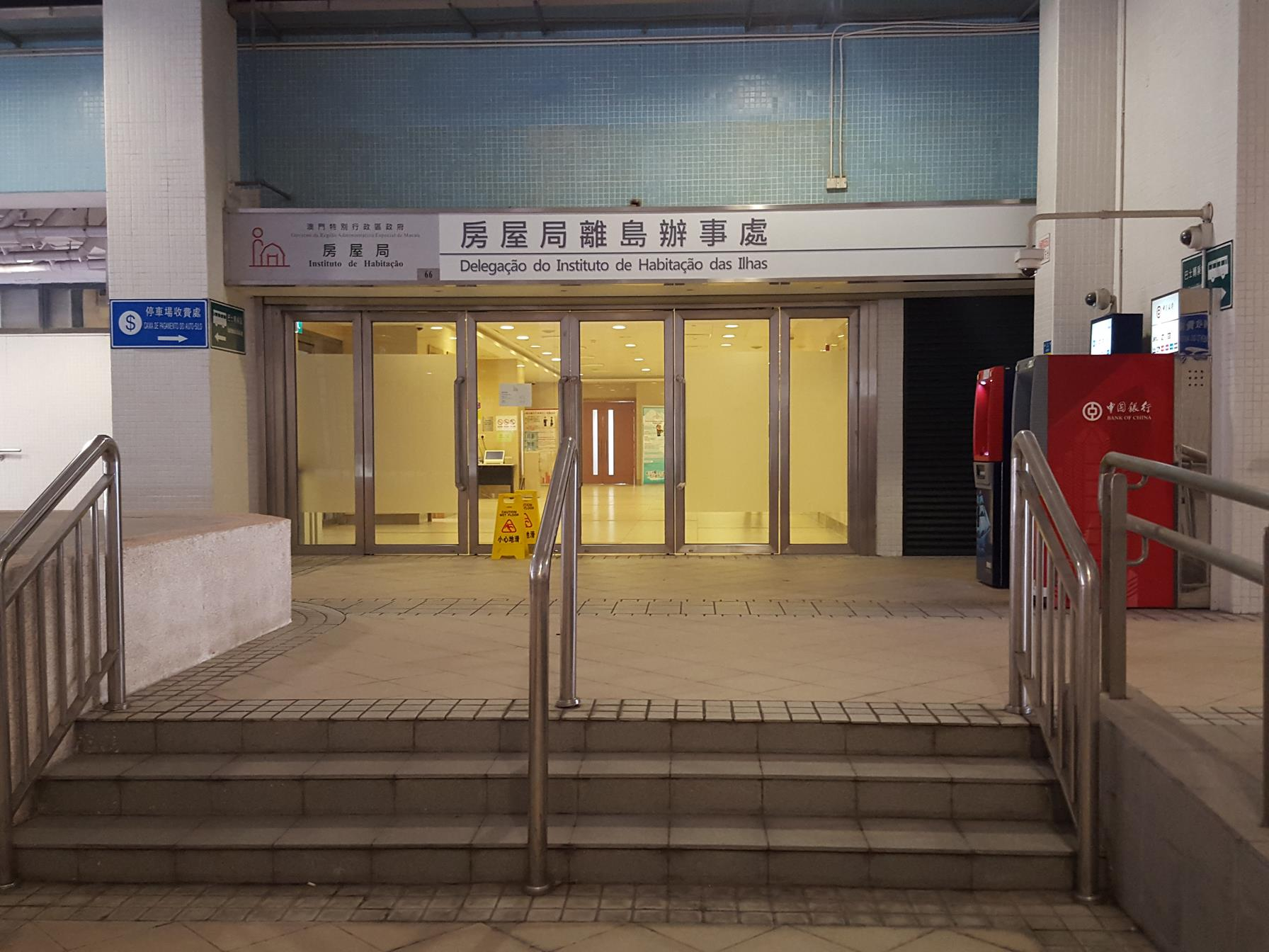 Instituto de Habitação Taipa Office